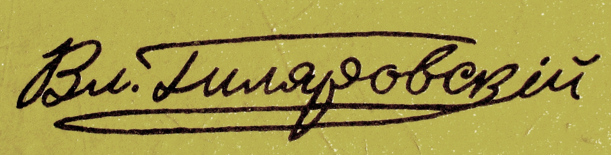 Russian writer Vladimir Giliarovsky signature.